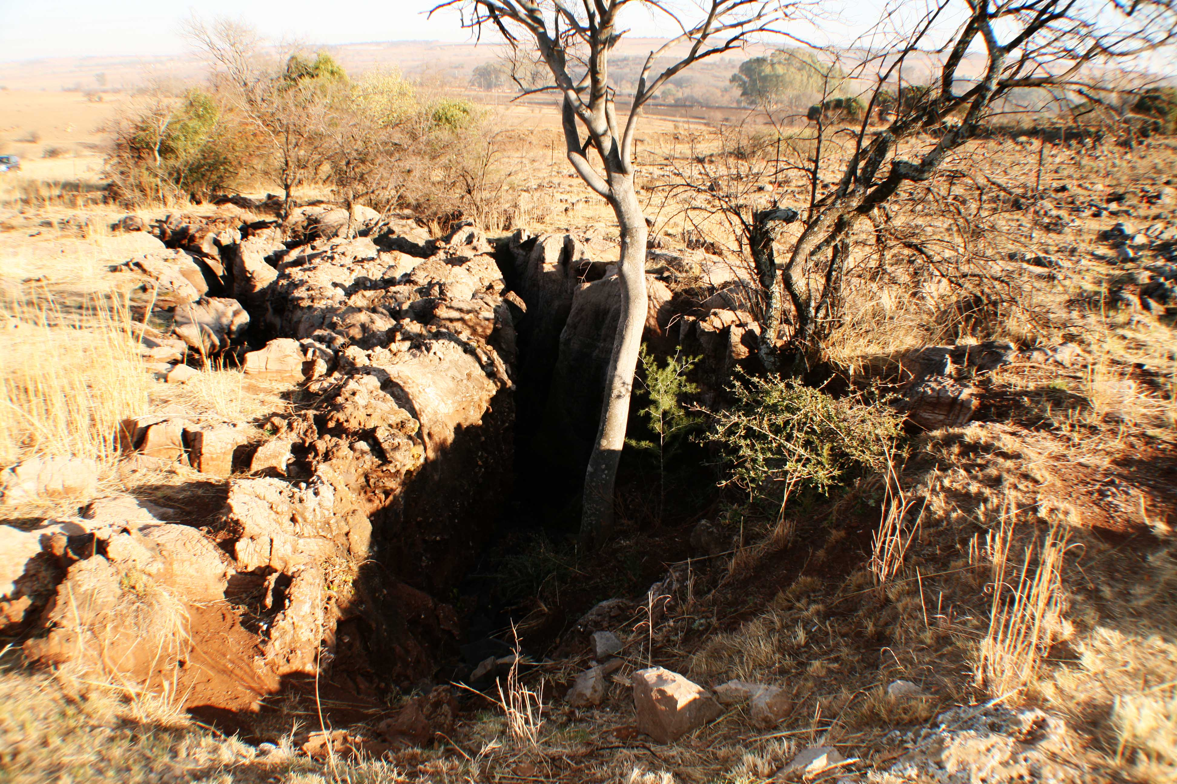 Coopers D fossil site, South Africa. Photo by Lee R. Berger.